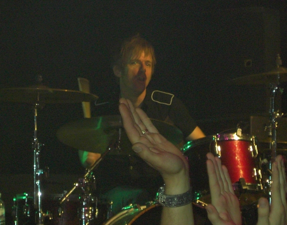 Danny Farrant drumming with punk group Buzzcocks at their appearance in Beverley